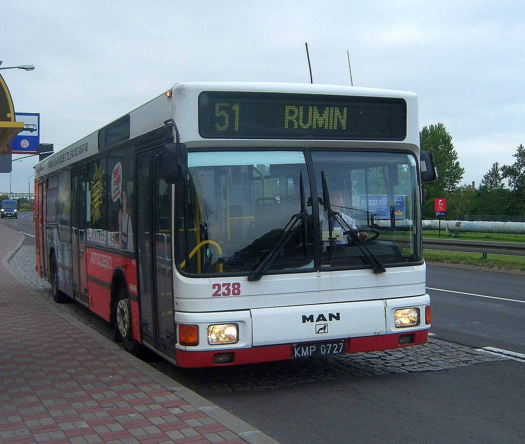 MAN NL222 bus (#238) in Konin, Poland (Line 51 - drive to Rumin). Built 1998, MZK Konin operator.